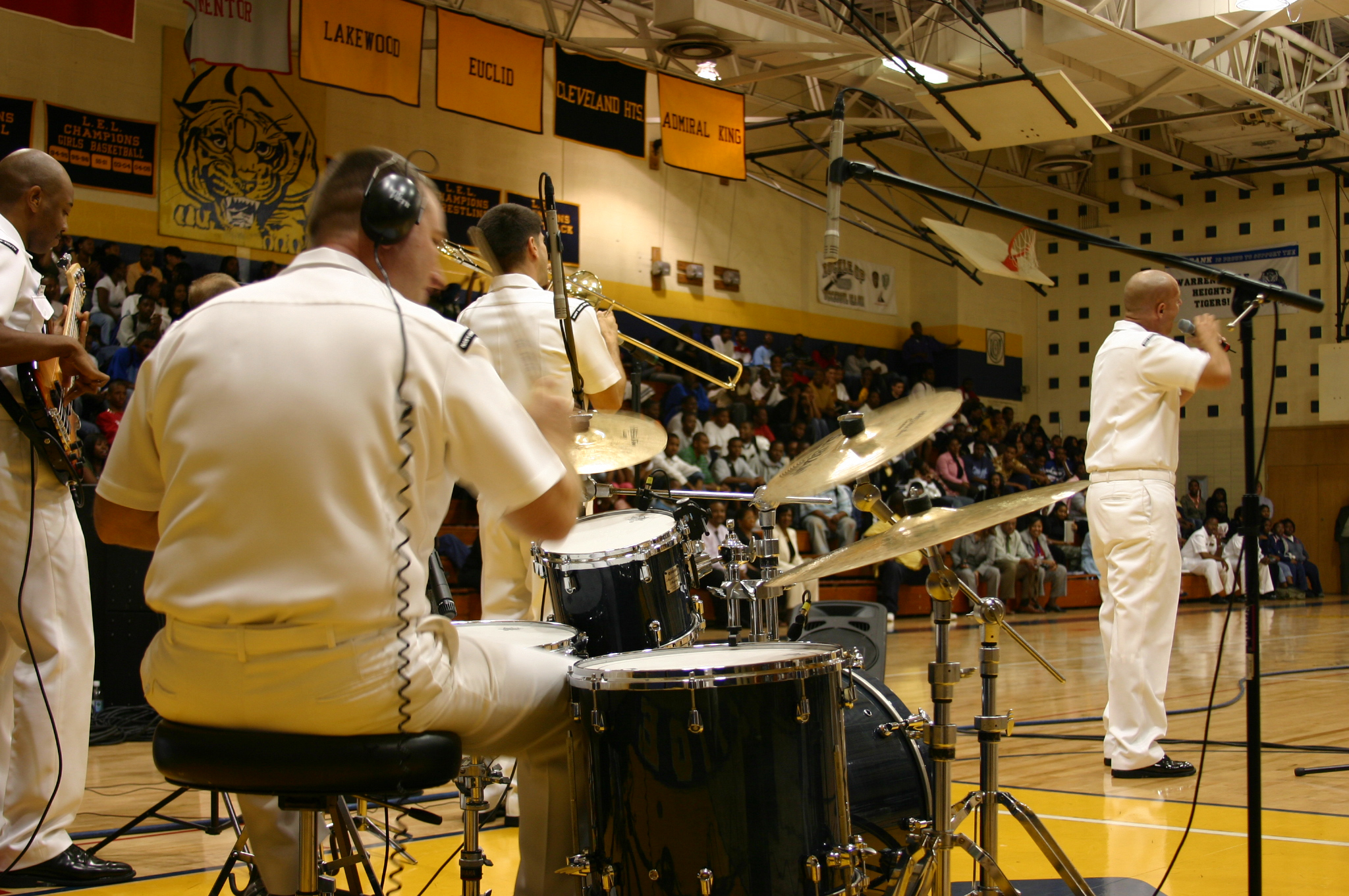 Cleveland, Ohio (Aug. 30, 2006) - Navy Band Mid-South rock band "Freedom" performs at Warrensville Heights High School. "Freedom" performed a nearly two-hour set at the high school for Cleveland Navy Week. The band will perform at many locations around town, including the Rock and Roll Hall of Fame and Museum. Twenty-six such Navy Weeks are planned this year in cities throughout the U.S., arranged by the Navy Office of Community Outreach (NAVCO) to increase awareness of the Navy in areas. The mission of NAVCO is to enhance the Navy's brand image in areas with limited exposure to the Navy. U.S. Navy photo by Mass Communication Specialist 2nd Class Michael Sheehan (RELEASED)